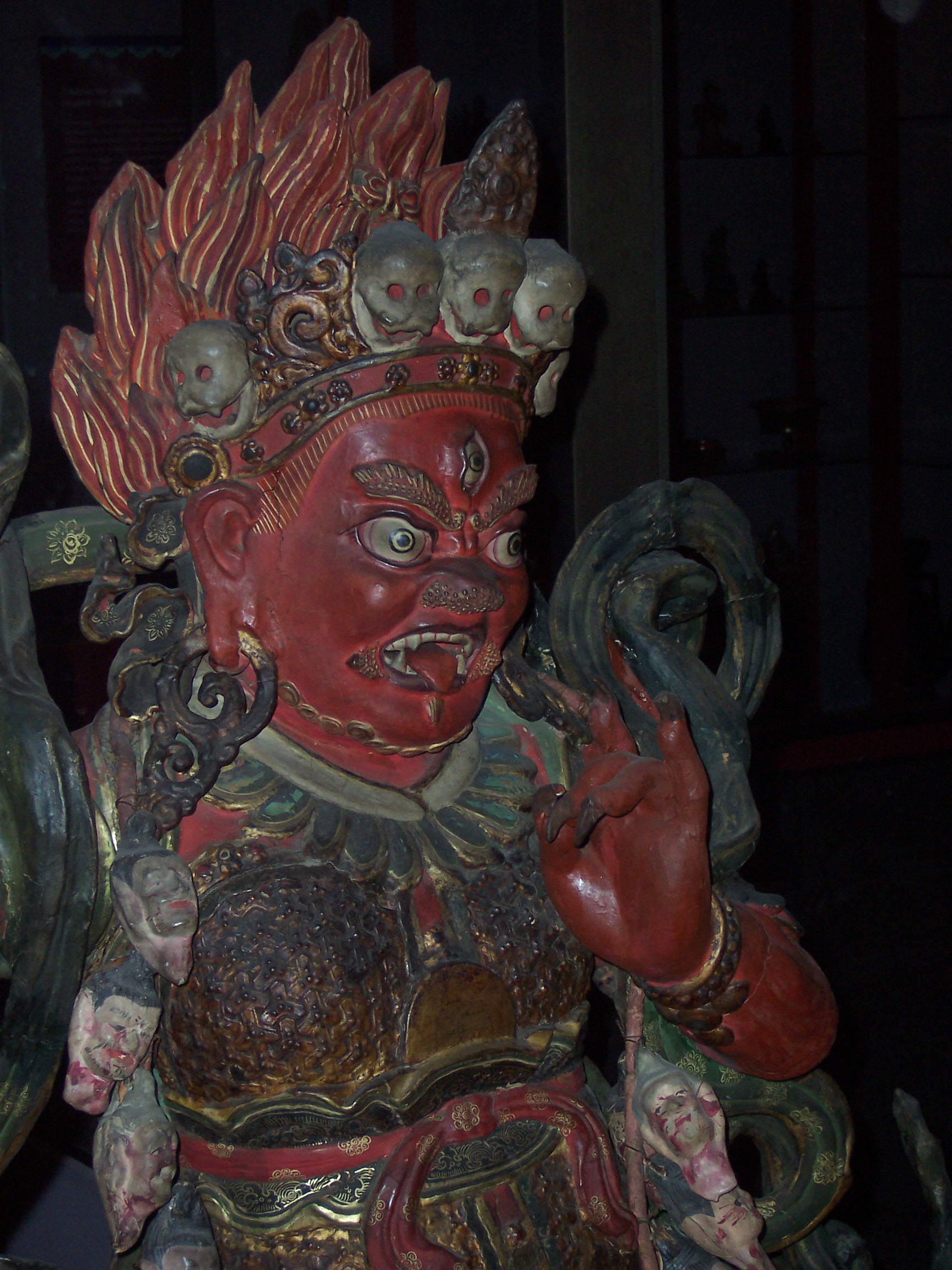 Yama_1 Field Museum of Natural History Closeup. Yama, the Lord of Death, is revered in Tibet as a guardian of spiritual practice, and was likely revered even before the conversion of Tibet from Bön to Buddhism in the 7th century. The idol is wood, painted, over 4 feet high. Human skulls and heads festoon the crown and necklace of Yama.